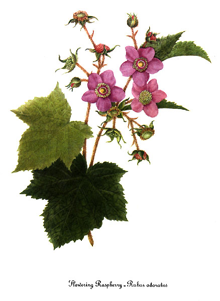 Watercolor painting of Rubus_odoratus.